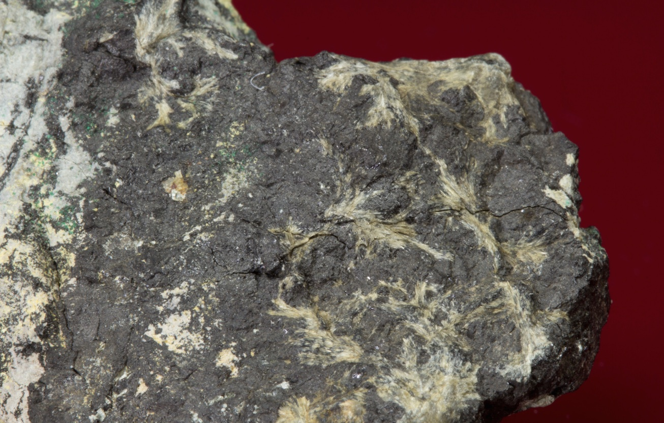 Håleniusite-(La) Locality: Bastnäs mines, Riddarhyttan, Skinnskatteberg, Västmanland, Sweden Size: 5.0 cm x 3.0 cm x 1.5 cm A fantastic combination specimen from the historic Bastnas ore field. Pale yellow, subhedral aggregates of the rare earth oxyhalide haleniusite are intimately intergrown with lavender-gray, massive cerite-(Ce), dark green-gray tornebohmite-(La), black, granular massive ferriallanite, sub-radial sheaves of an amphibole group mineral, and vibrant green, radial aggregates of brochantite. Swedish Natural History Museum and Paulo Matioli labels. Photos by Tom and Melissa Campbell.